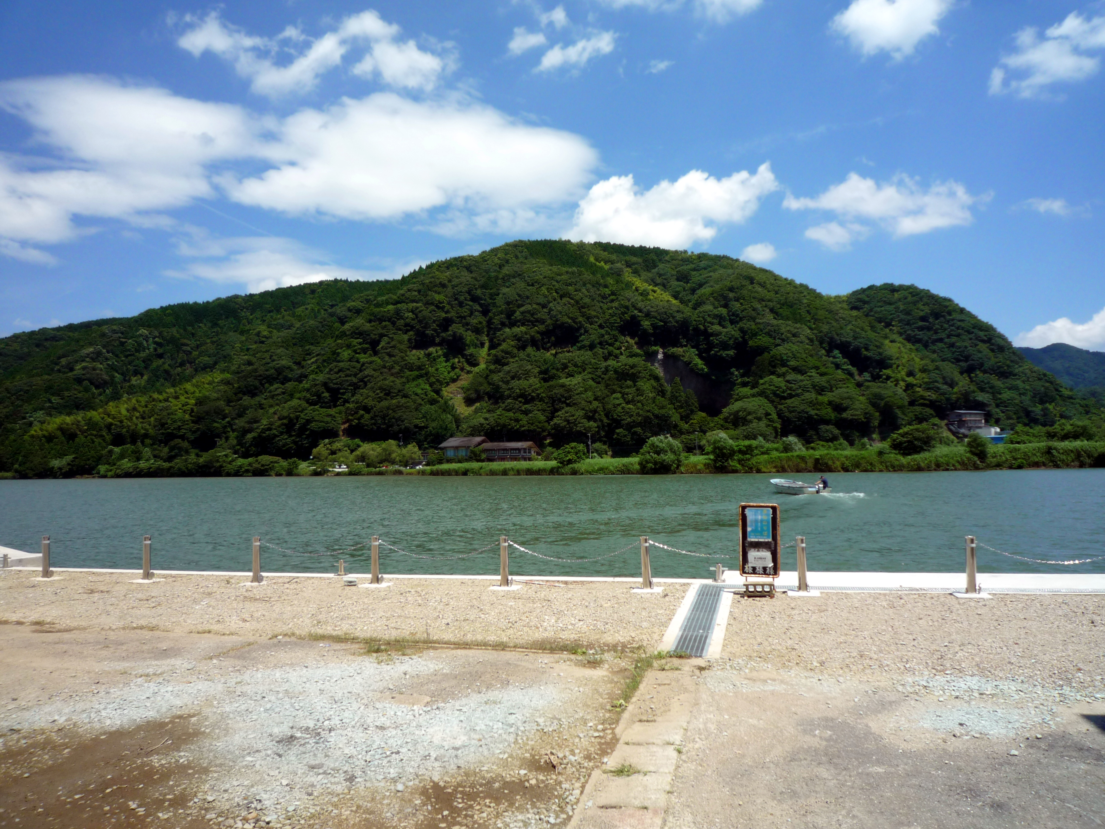 The landing of the ferry toward Gembudō near Gembudō Station.